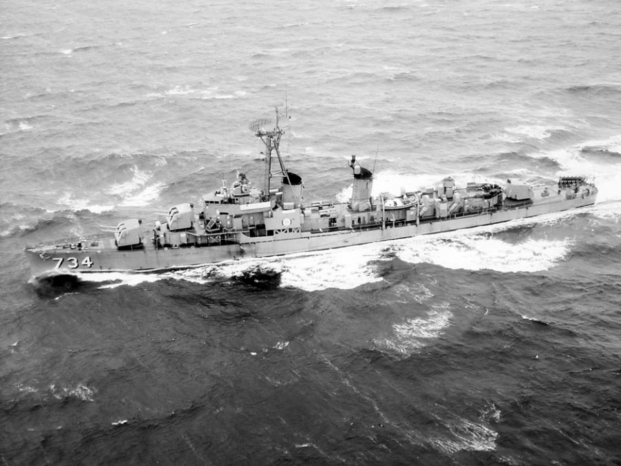 The U.S. Navy destroyer USS Purdy (DD-734) underway in Narragansett Bay, Rhode Island (USA), on 24 October 1971. Note that Purdy received almost no modification. She is still equipped with the SPS-6 radar and is armed with hedehogs and carries a depth charge rack aft. The only modern armament are two Mark 32 torpedo lauchers amidships. Purdy trained naval reservists and served in that role until 1973.